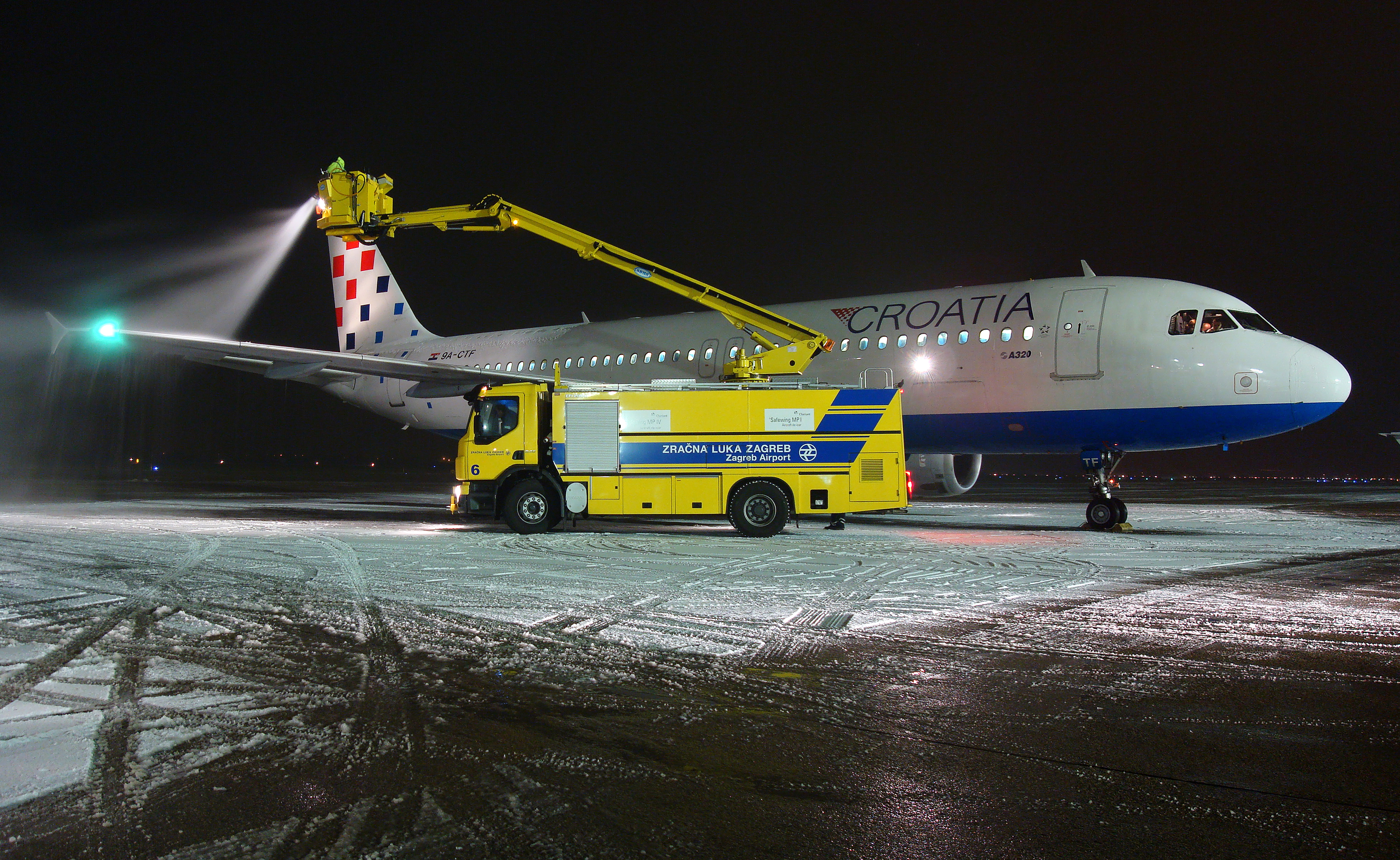 De-icing wing on Airbus A320.